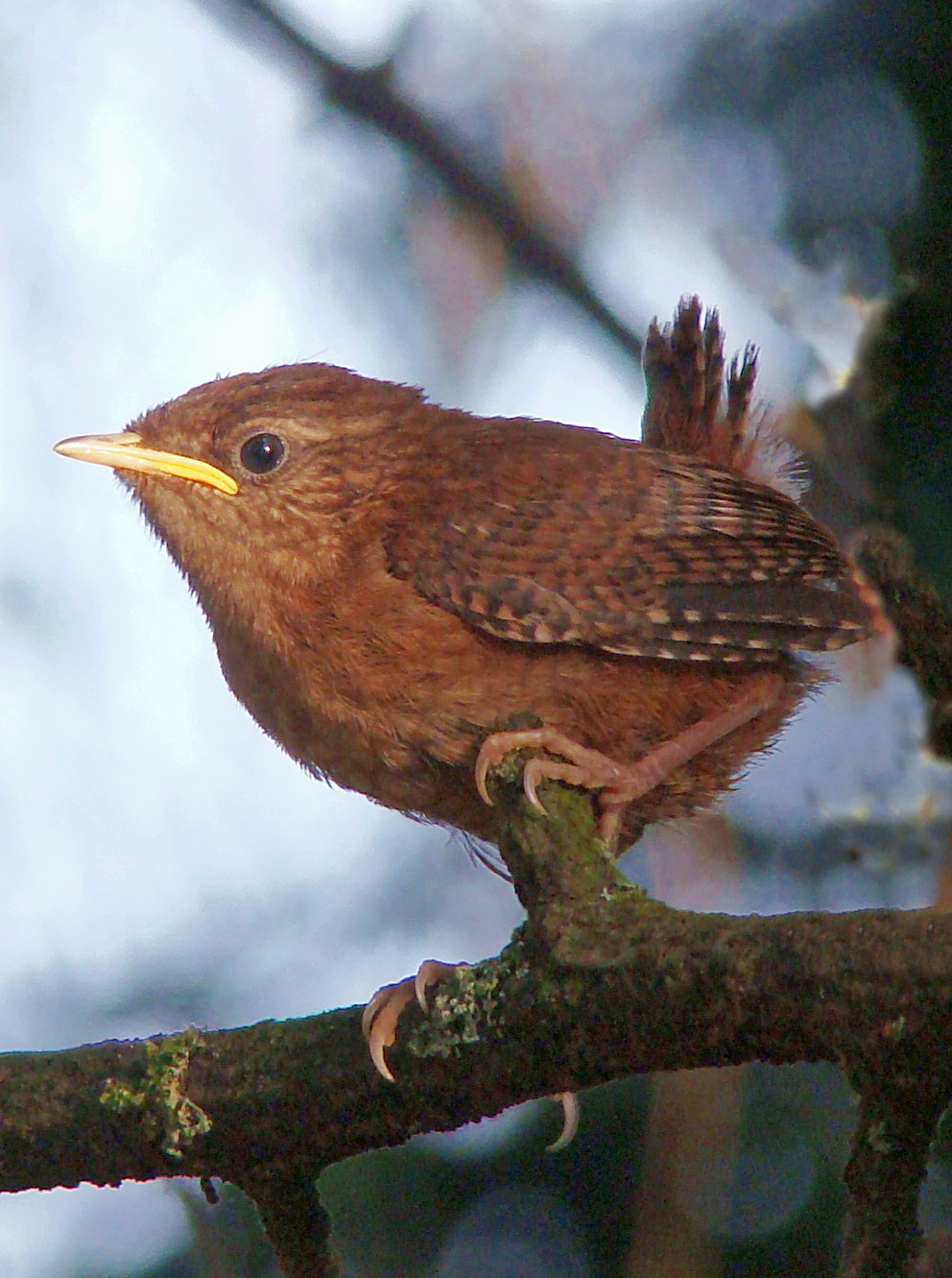 Juvenile Wren